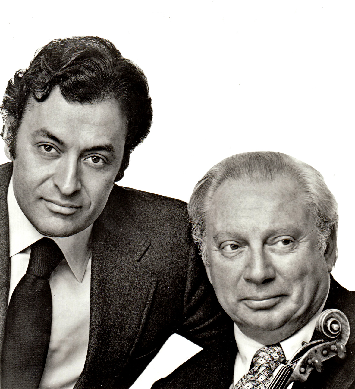 Publicity photo of Zubin Mehta and Isaac Stern for Stern's 60th birthday concert at Lincoln Center.